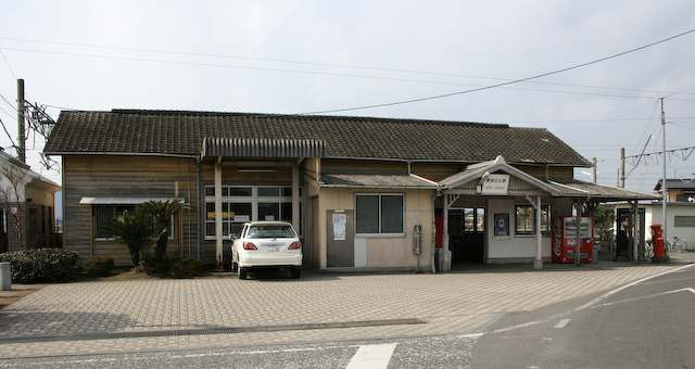 Photo taken by me.